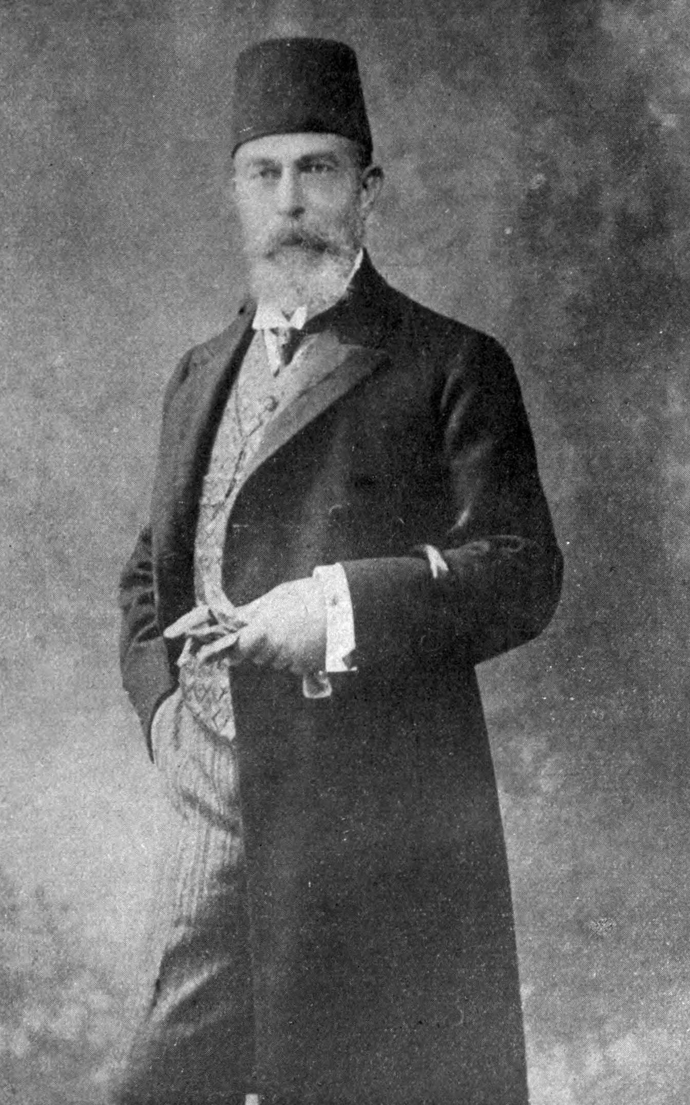 Recaizade Mahmud Ekrem